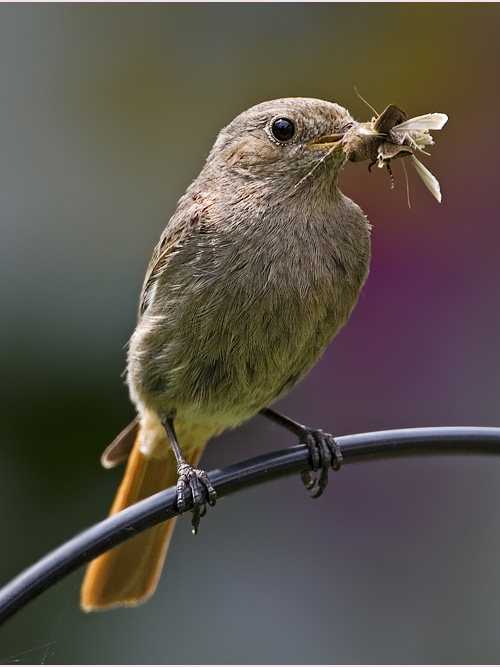 Female Black Redstart (Phoenicurus ochruros gibraltariensis) with prey